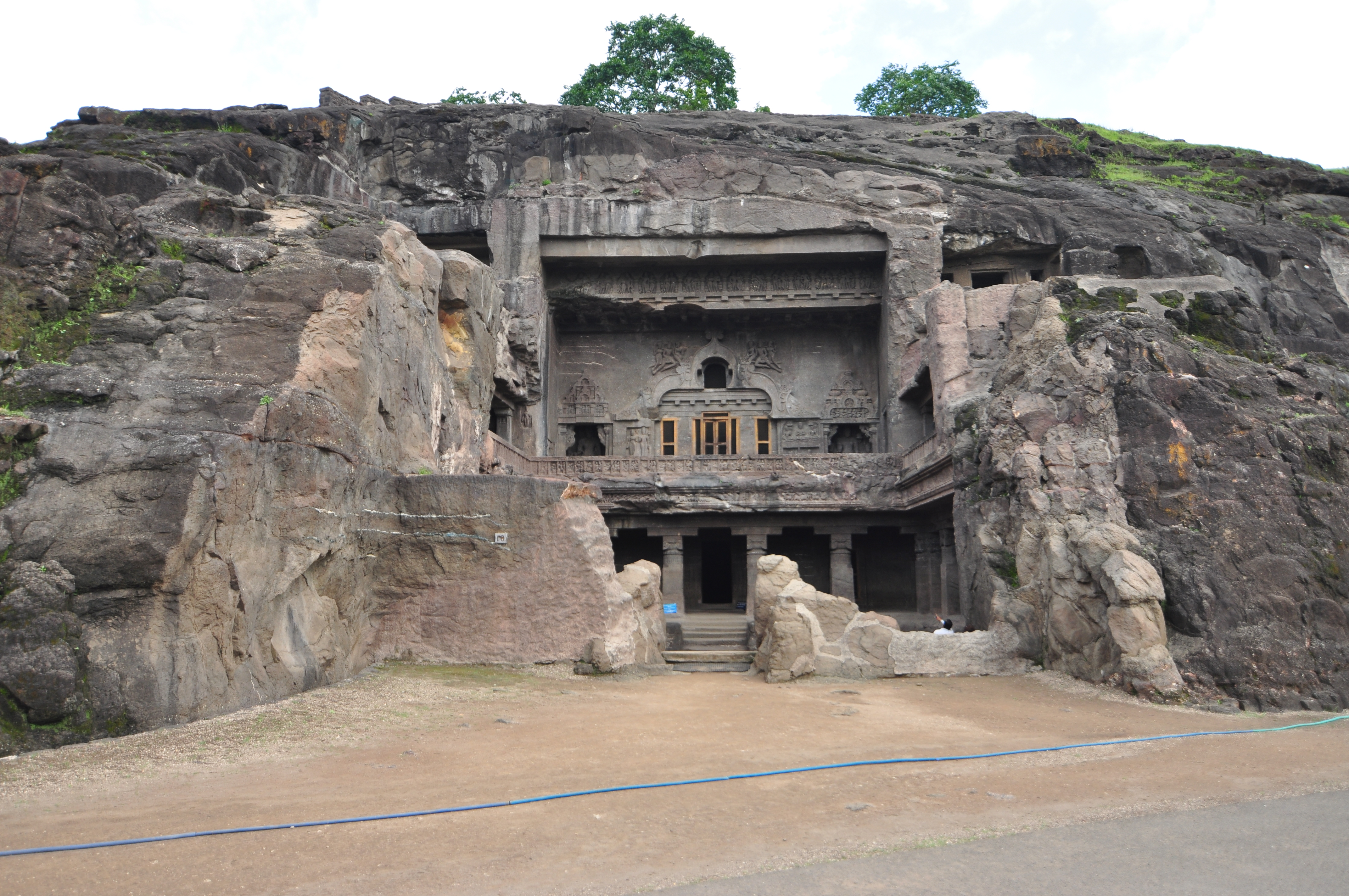 Ellora Caves